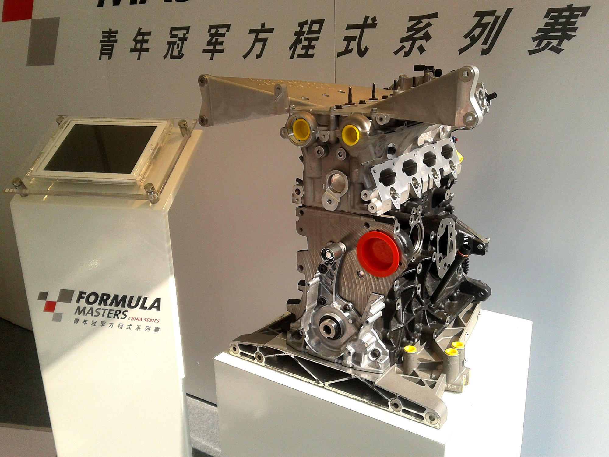 2013 Formula Masters China VW engine 中文（香港）: 2013年青年方程式挑戰賽大眾引擎